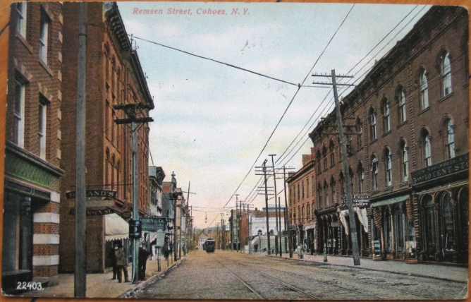 Image of Remsen Street in Cohoes, New York around 1908